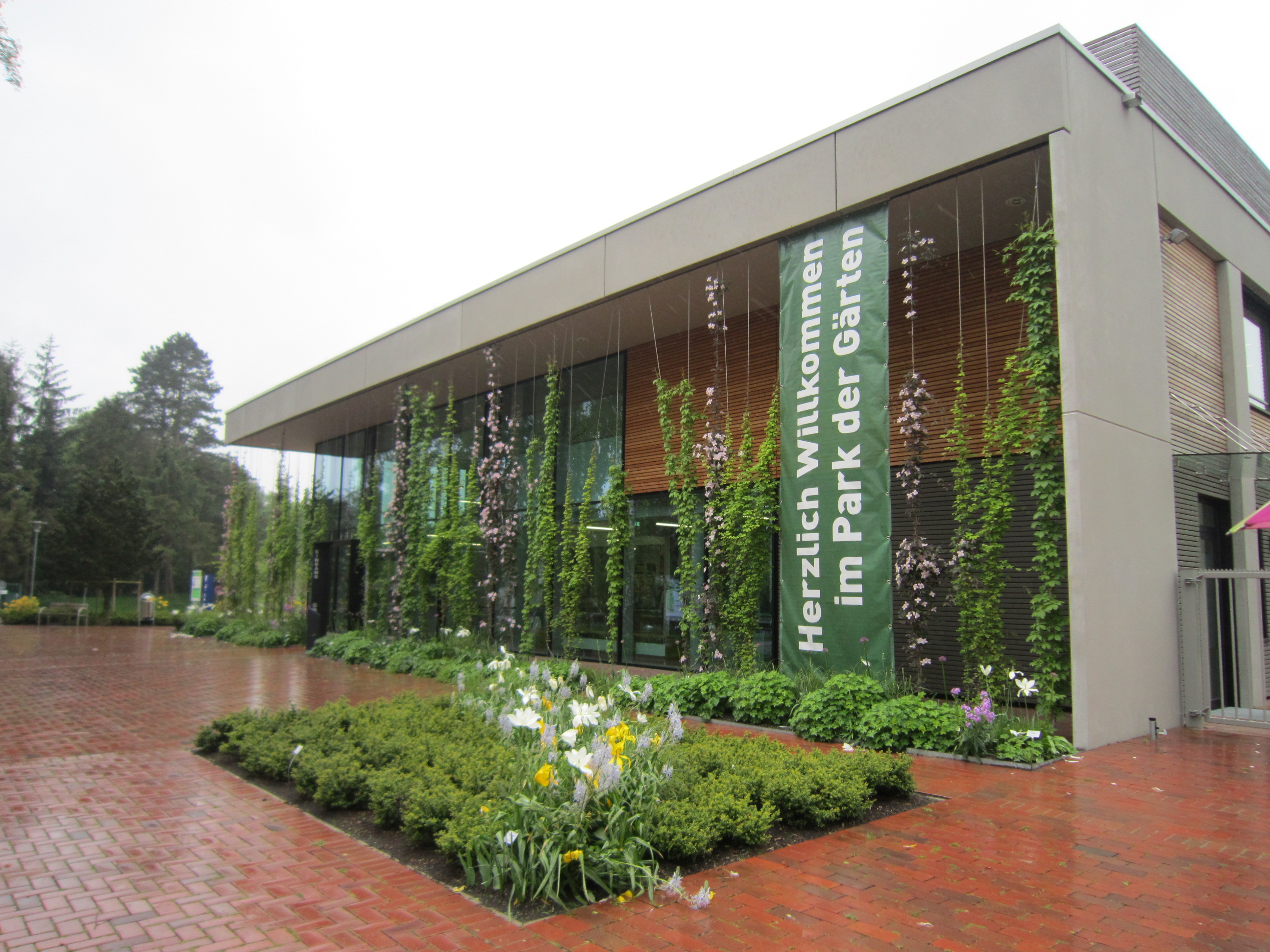 Entrance of the "Park der Gärten" in Rostrup (Bad Zwischenahn)